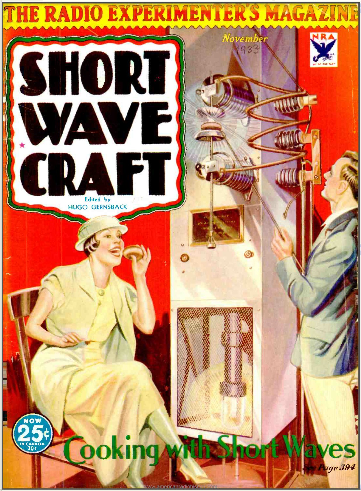 Demonstration of cooking by radio waves at the 1933 Chicago World's Fair, "Century of Progress", Chicago, Illinois, USA, illustration on cover of Hugo Gernsback radio magazine. This was a forerunner of modern microwave ovens which were developed in the 1950s. At Westinghouse Corp's "Powercasting" exhibit of futuristic shortwave technology, sandwiches were cooked by placing them between metal plates of a powerful 10 kW 60 MHz short wave transmitter, as shown. The magazine article (p. 394) says steaks, potatoes, and vegetables were also cooked in a few minutes. The exhibit also demonstrated wireless power transmission; a 1/4 horsepower motor was run by radio waves over a distance of 30 feet, and audience members could expose their bodies to the radio waves and feel the heat generated. The short wave technology was developed at Westinghouse research laboratories by I. F. Mouromtseff, and the demonstrations were conducted by G. R. Severance and film star Fifi D'Orsay (shown)